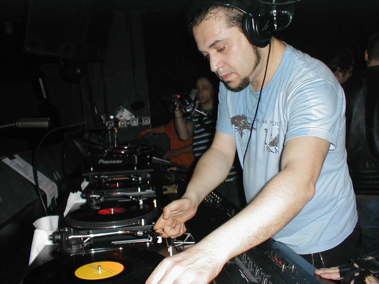 Super DJ Dmitri taken at NASA Rewind in NYC (Manhattan) 04-03-2004